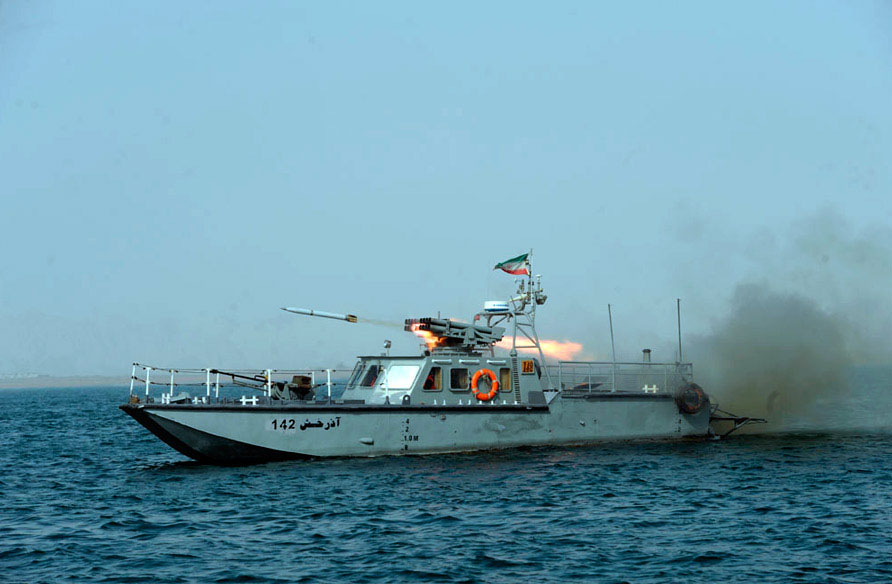 IRIN C 14-class missile boat in Velayat-90 Naval Exercise.